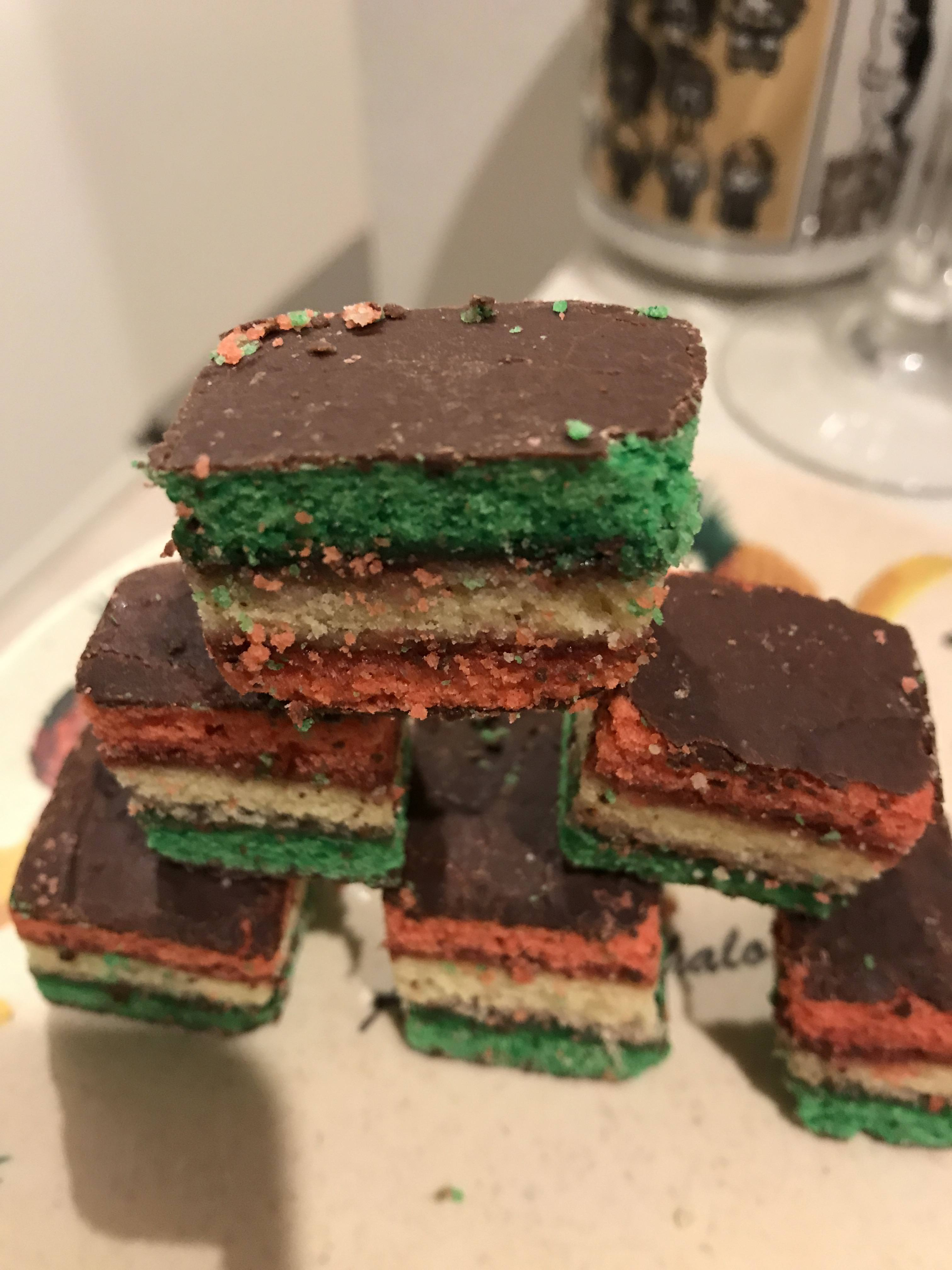 lit yummy doink rainbow cookies